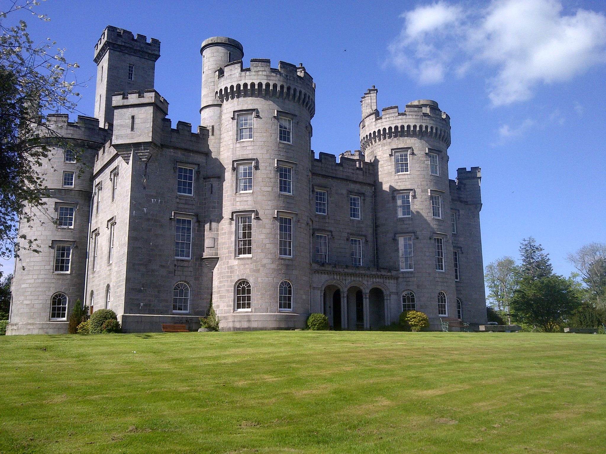 Face view of Cluny Castle showing the West Wing